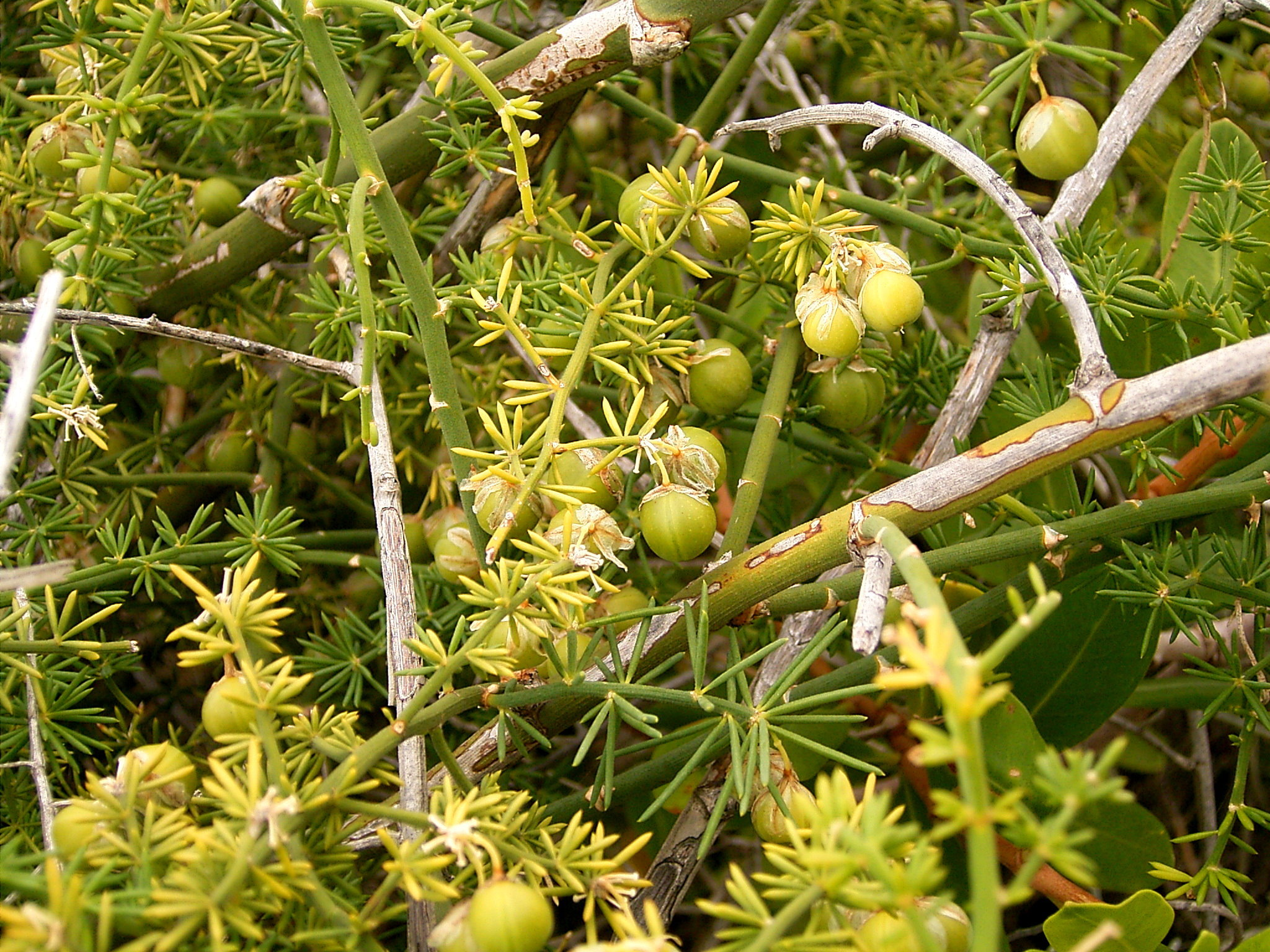 Asparagus umbellatus growing in La Fajana, Barlovento, La Palma, Canary Islands